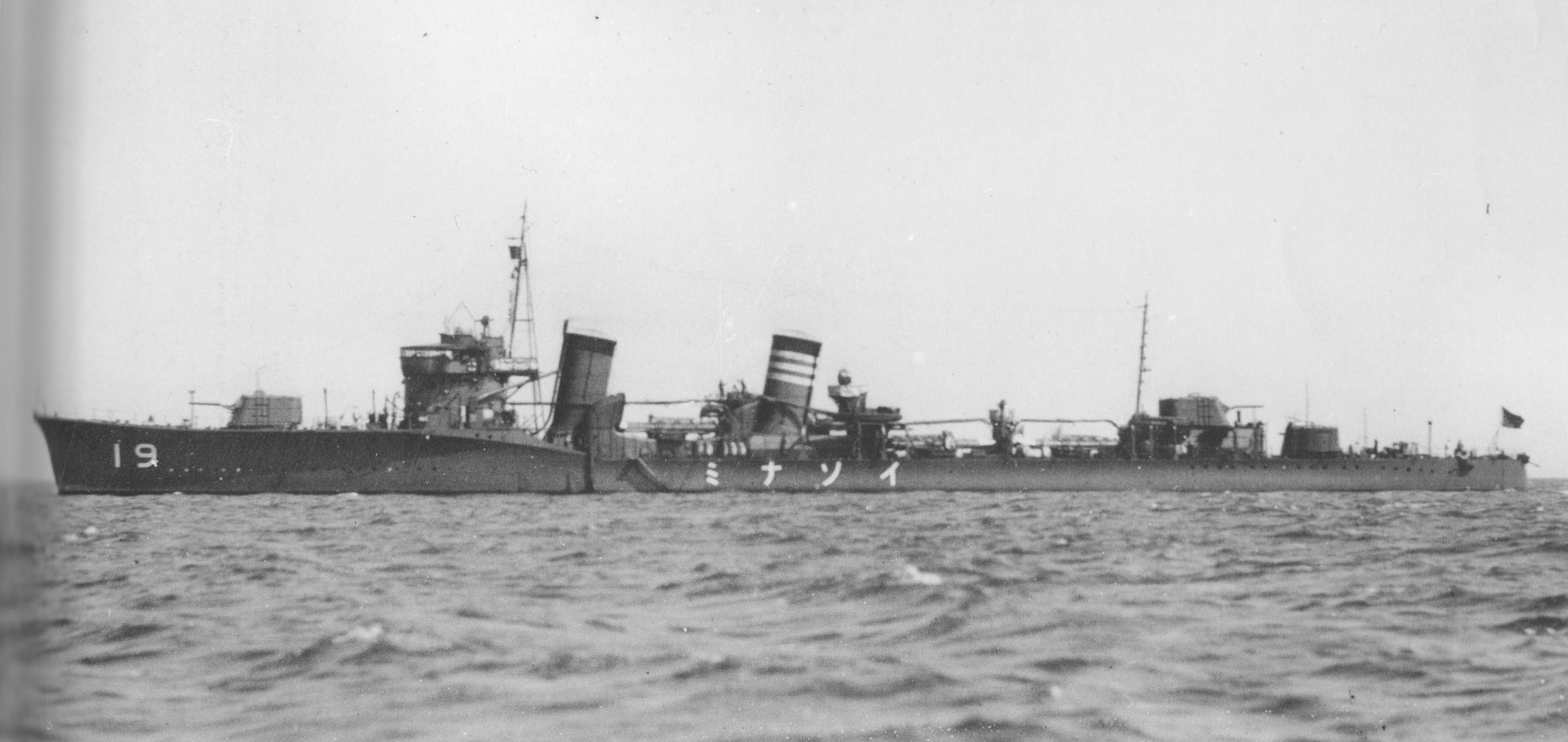 Imperial Japanese Navy destroyer Isonami, the second Japanese warship to bear that name.